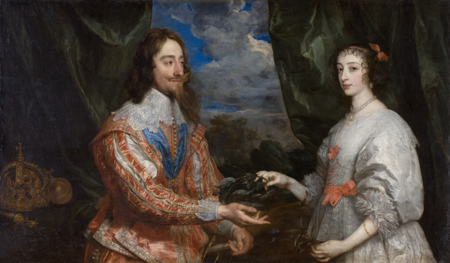 Portrait of Charles I of England with his wife, Henrietta Maria